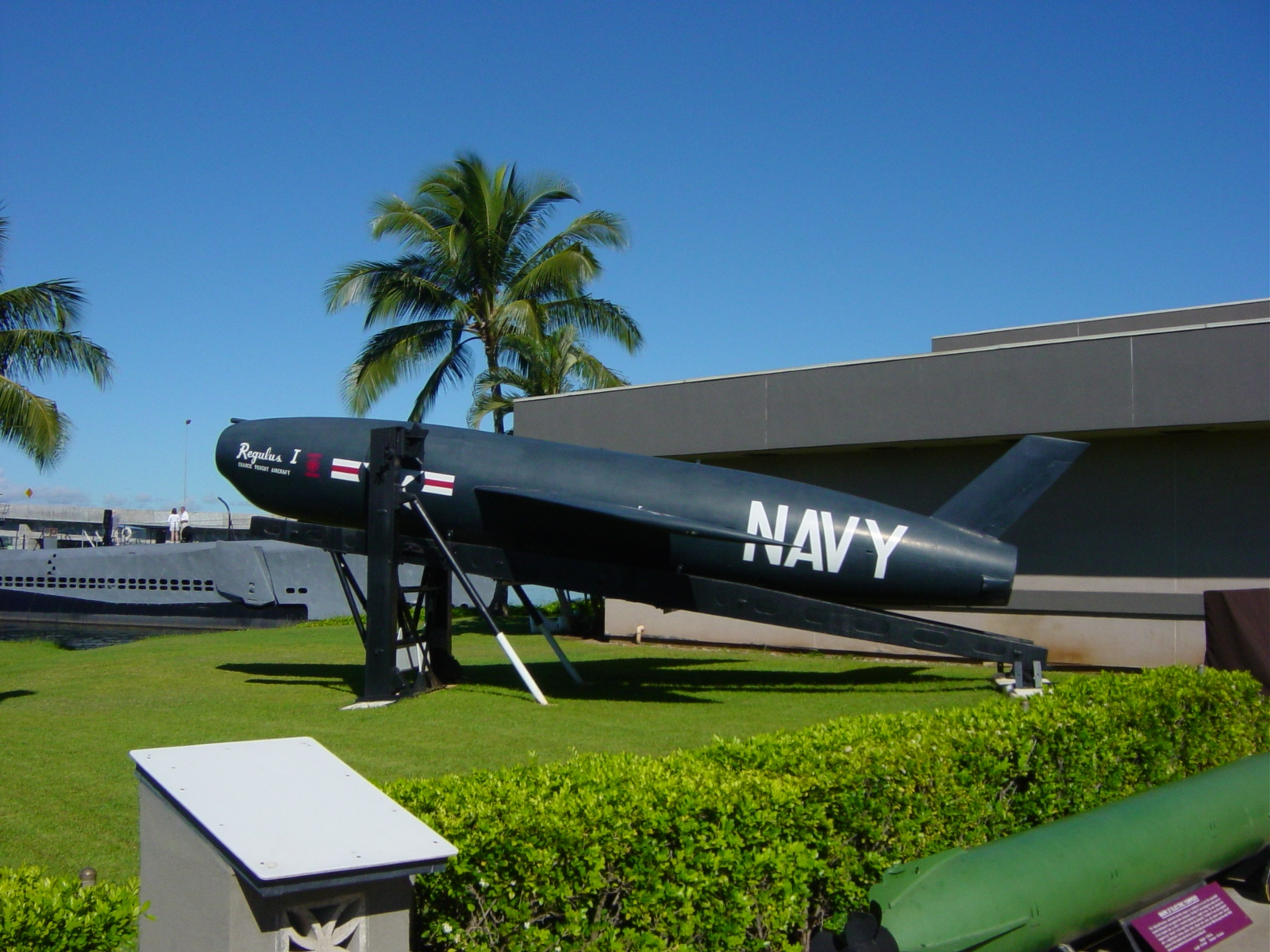 A SSM-N-8 "Regulus I" cruise missile displayed in Bowfin Park, Pearl Harbor, Hawaii